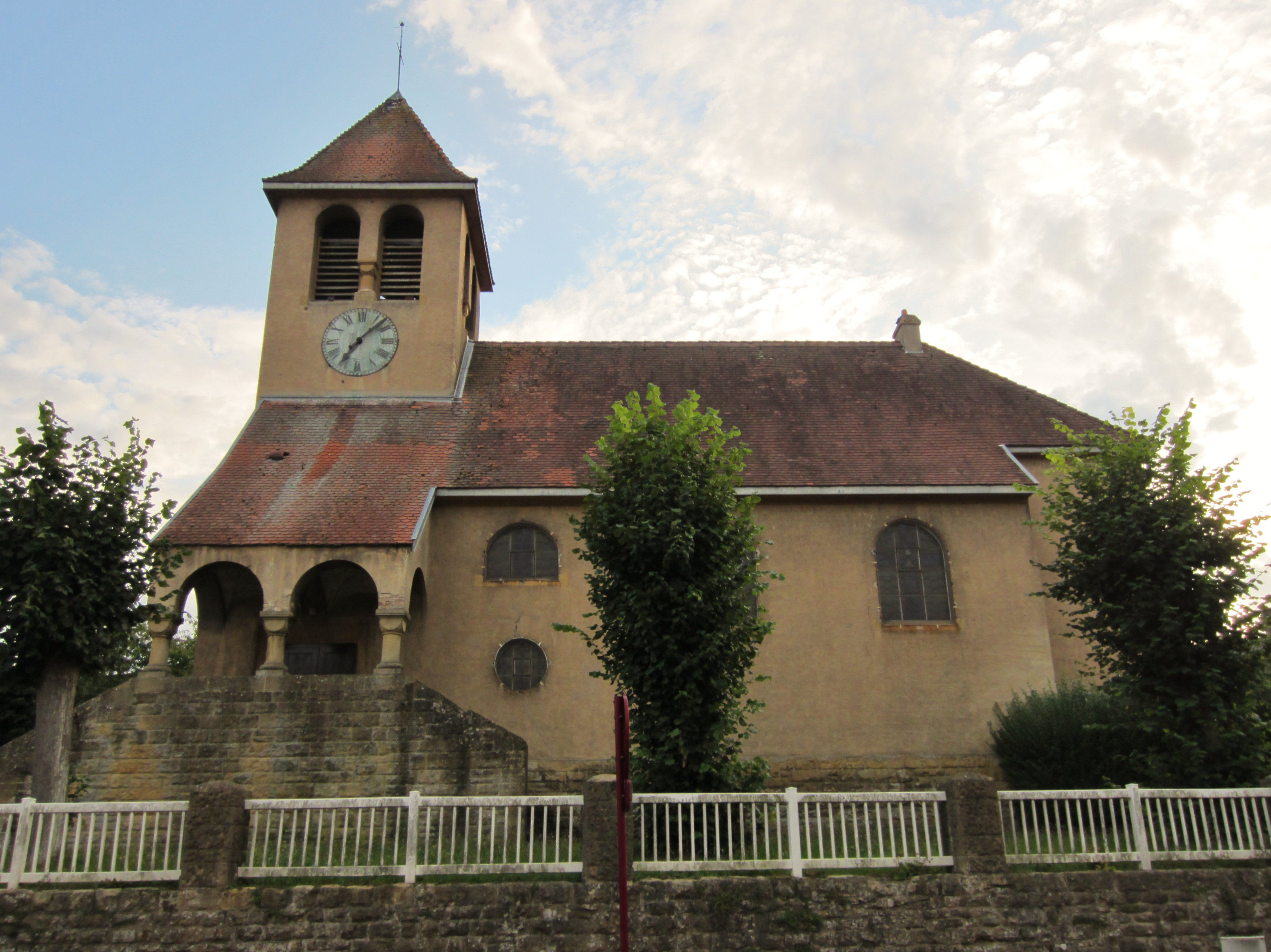 Description temple Ars Moselle Date2 September 2011Sourcemon appareil photoAuthorAimelaimePermission (Reusing this file) temple Ars Moselle